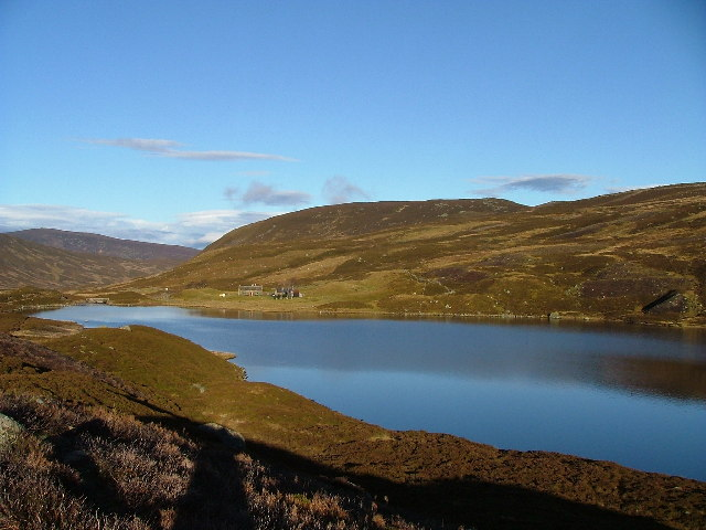 Loch Callater. Loch Callater is nearly a mile long, and covers 69 acres (28 hectares).